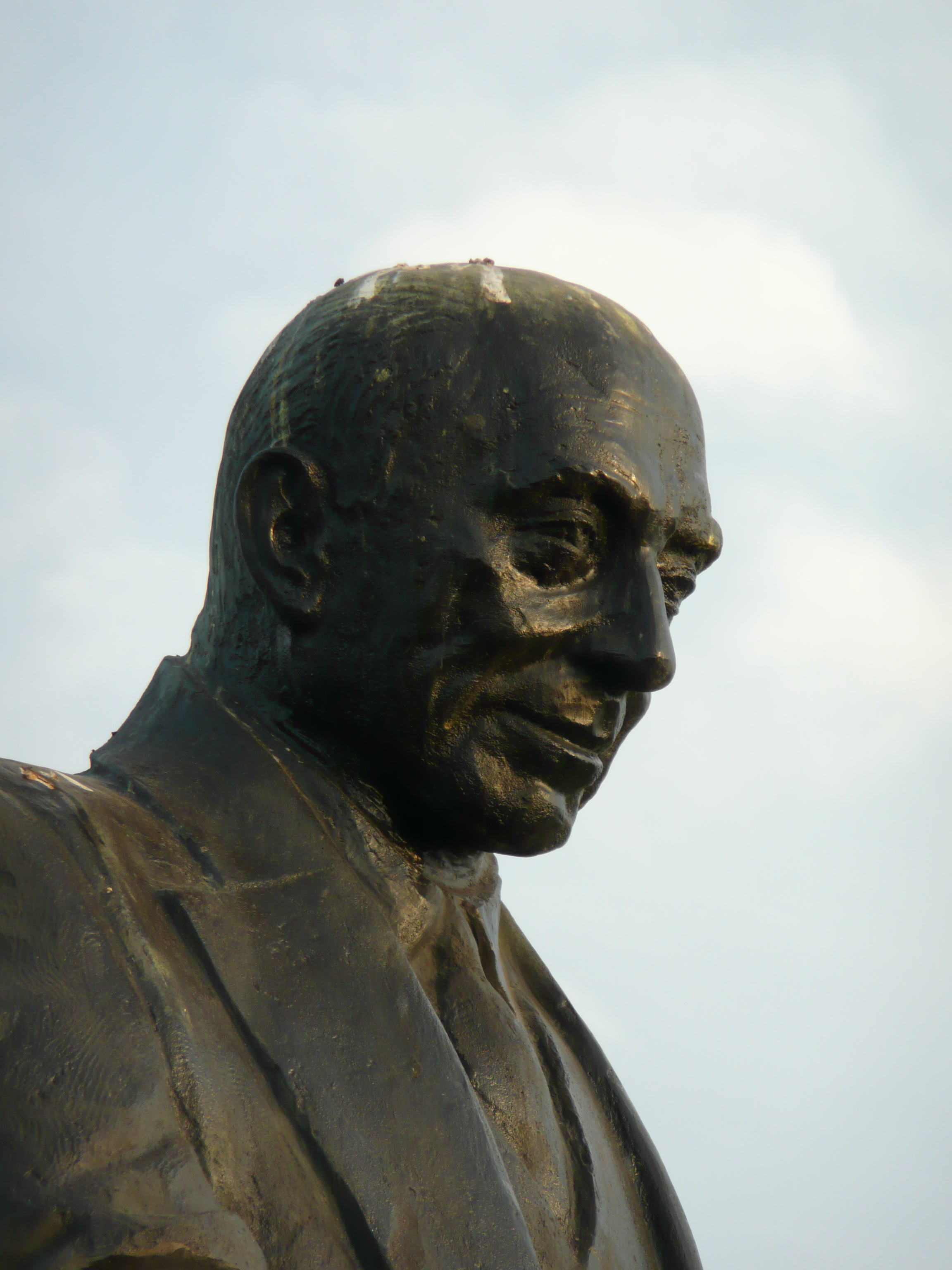 Statue of poet Fazıl Hüsnü Dağlarca, Kalamış Park, Istanbul